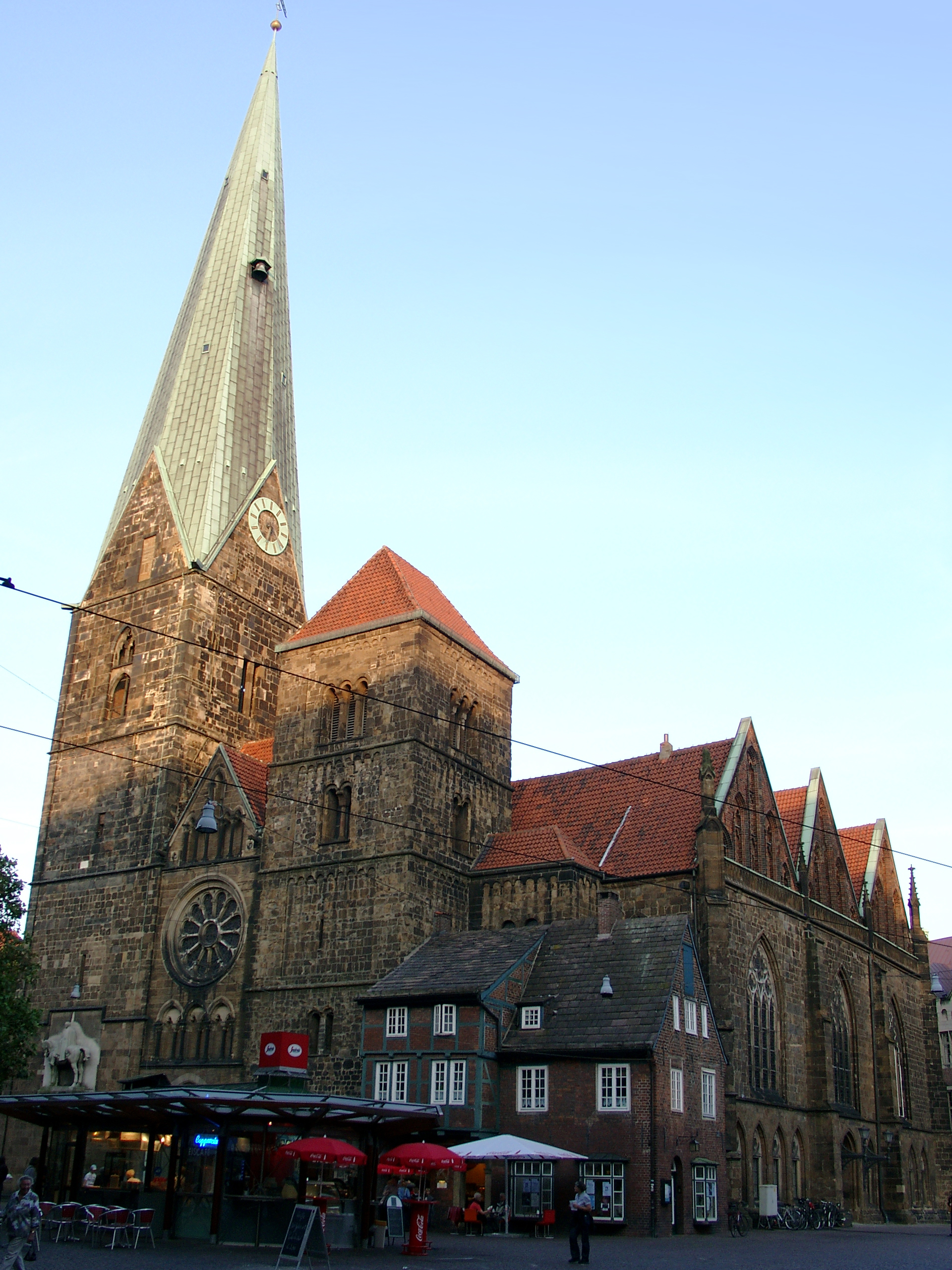 Church "Unser Lieben Frauen", Bremen, Germany